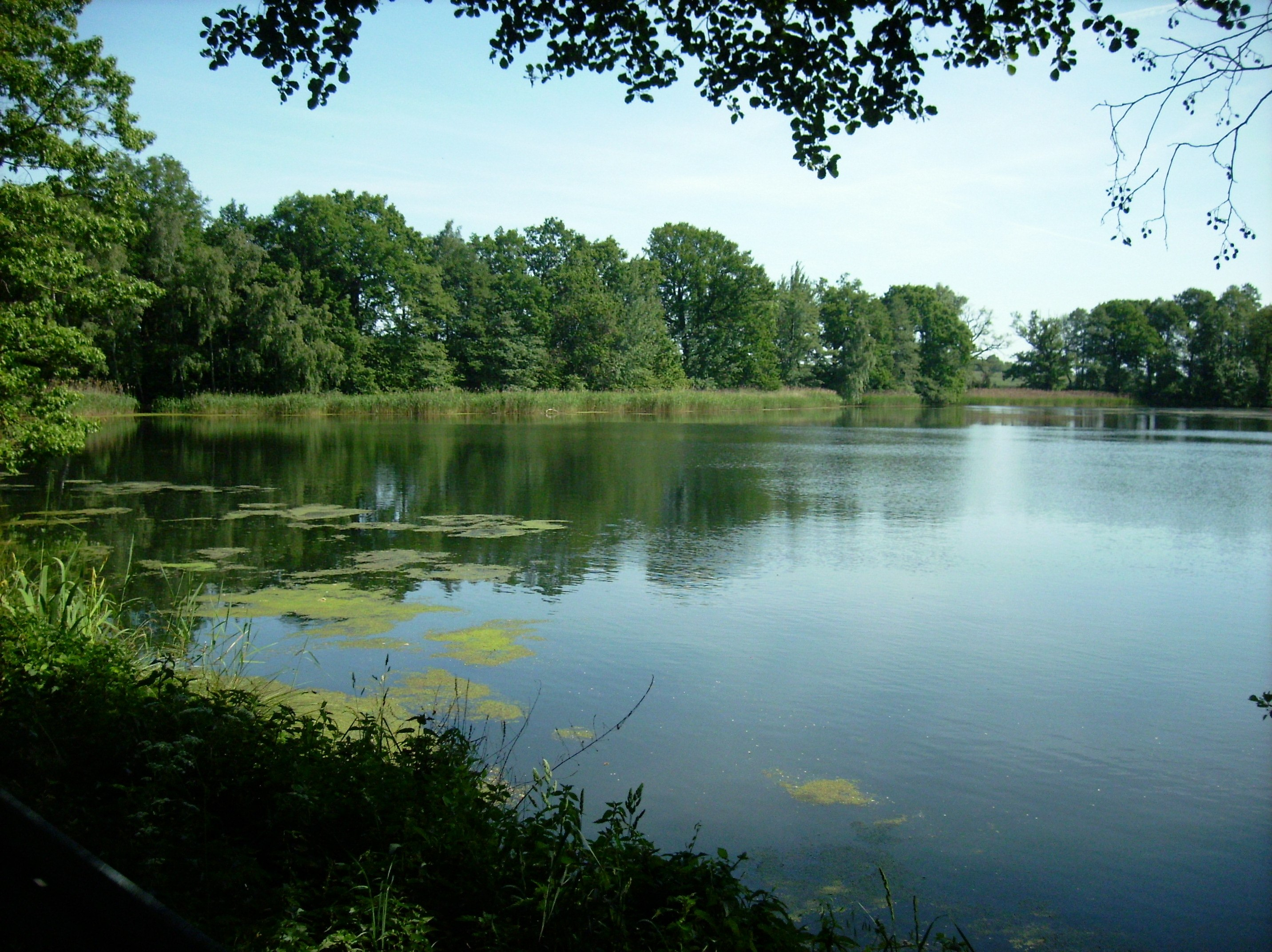 Mill pond in Mark Stolpen (Lossatal, Leipzig district, Saxony)